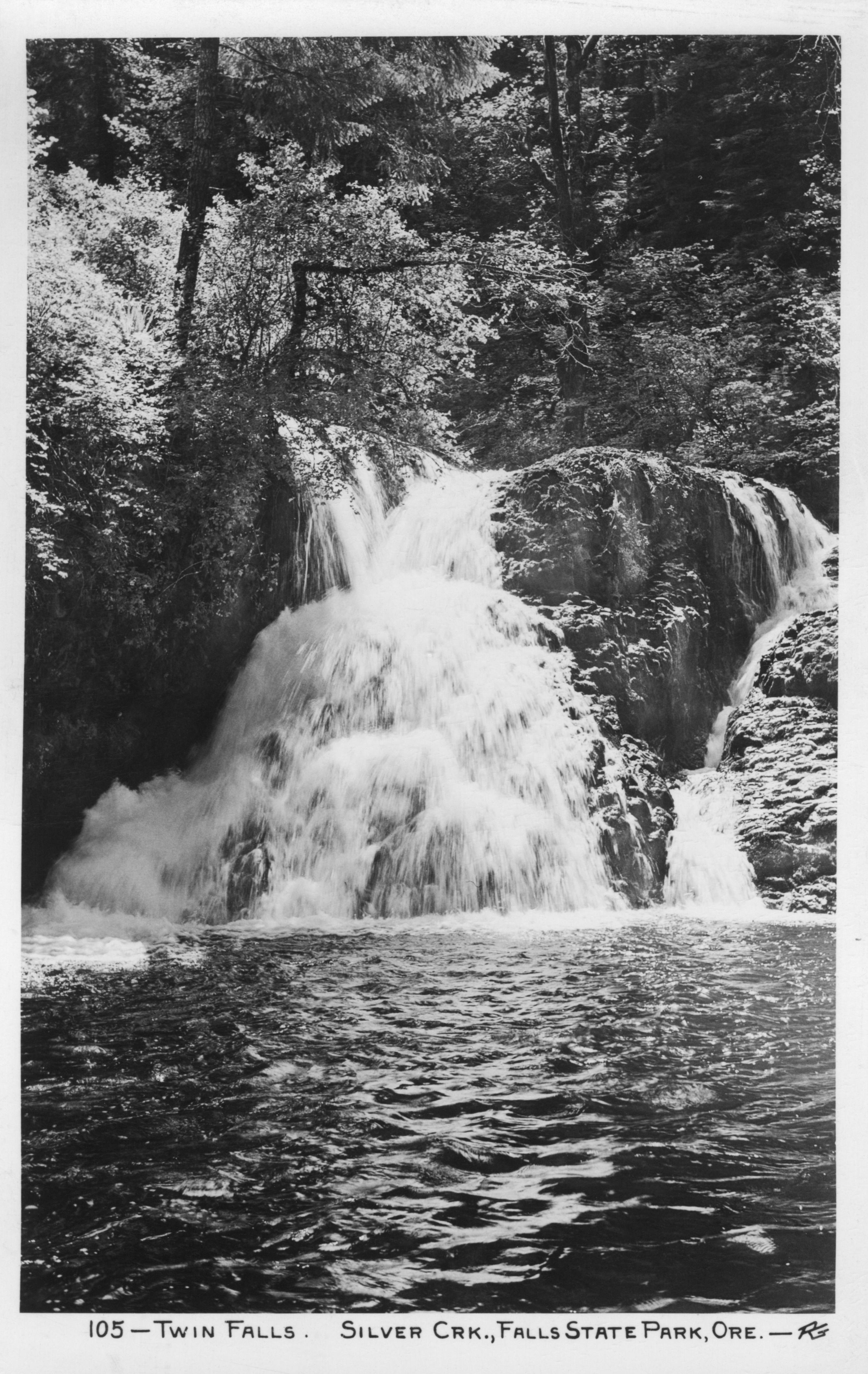 Original Collection: Gifford Photographic Collection Item Number: P 218 SG 2 PC105 You can find this image by searching for the item number by clicking here. Want more? You can find more digital resources online. We're happy for you to share this digital image within the spirit of The Commons; however, certain restrictions on high quality reproductions of the original physical version may apply. To read more about what “no known restrictions” means, please visit the Special Collections & Archives website, or contact staff at the OSU Special Collections & Archives Research Center for details.